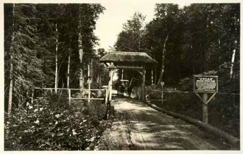 Gate to Uncas Road, photo by Seneca Ray Stoddard. Great Camp Uncas designed by William West Durant 1890, in 1895 sold to J.P. Morgan to settle a debt. Left empty for many years, then operated as a museum by H.R. Birrell, now a private home.